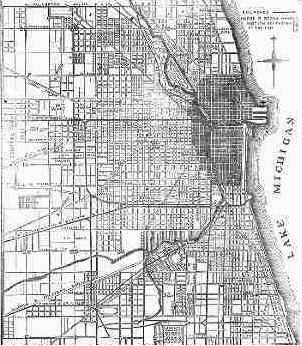 Map of Chicago from 1871. The shaded area was destroyed by the fire. This map appeared in a newspaper shortly after the fire.